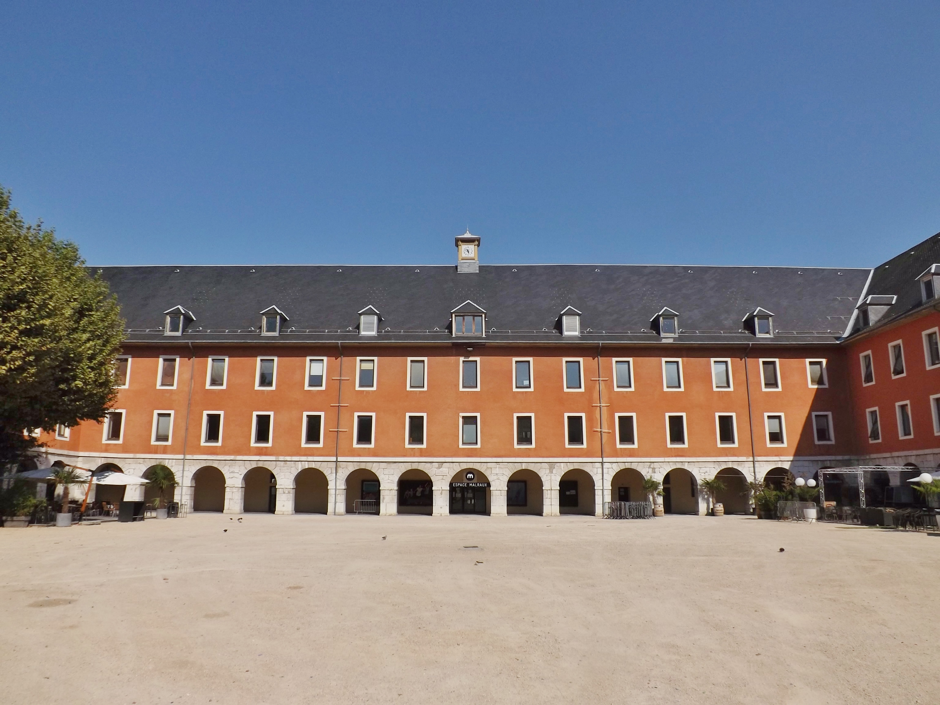 Sight of the eastern interior facade of the Carré Curial building, in Chambéry, Savoie, France.